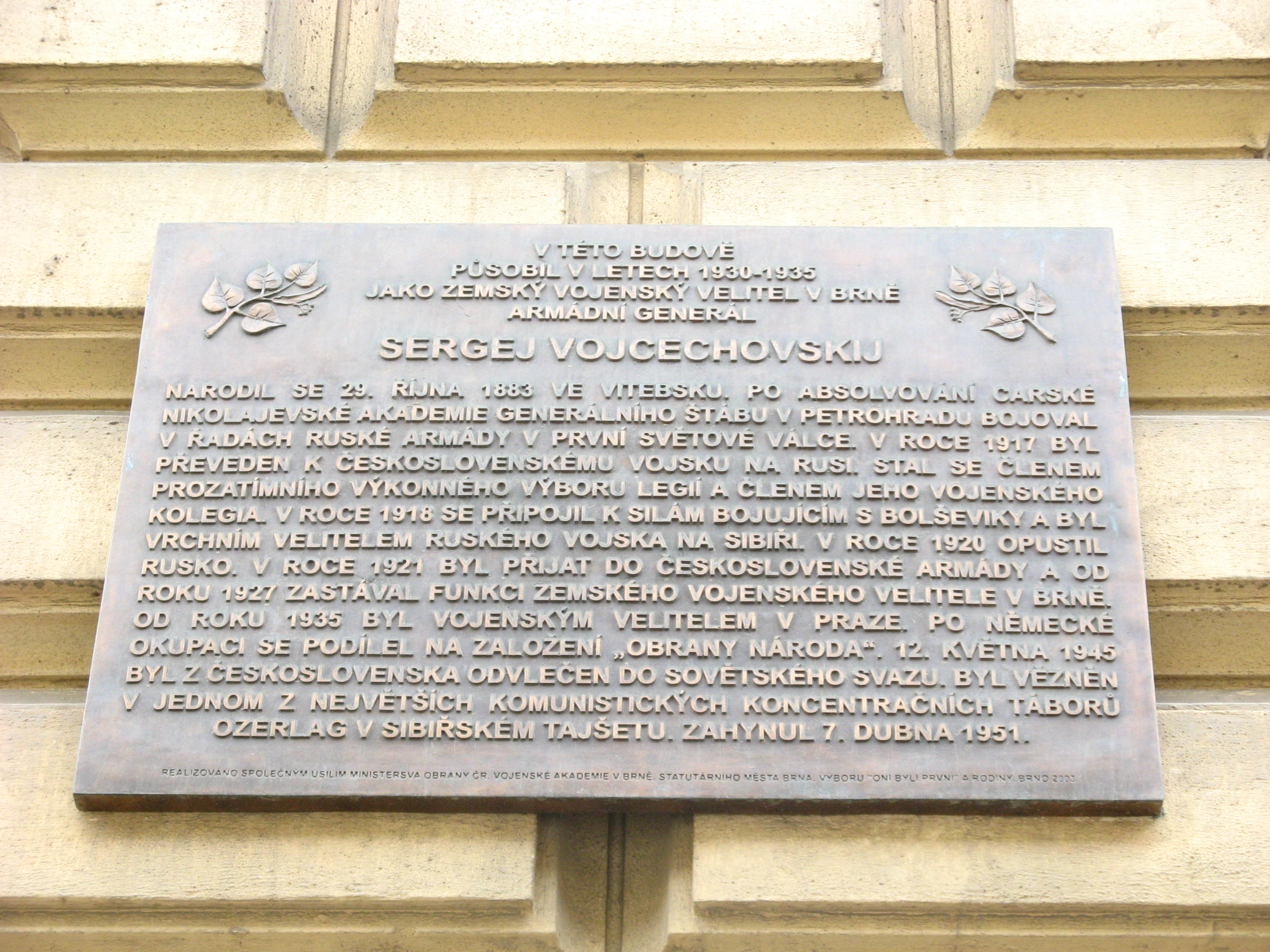 Memorial plaque of Sergej Vojcechovskij, Brno - Czech Republic